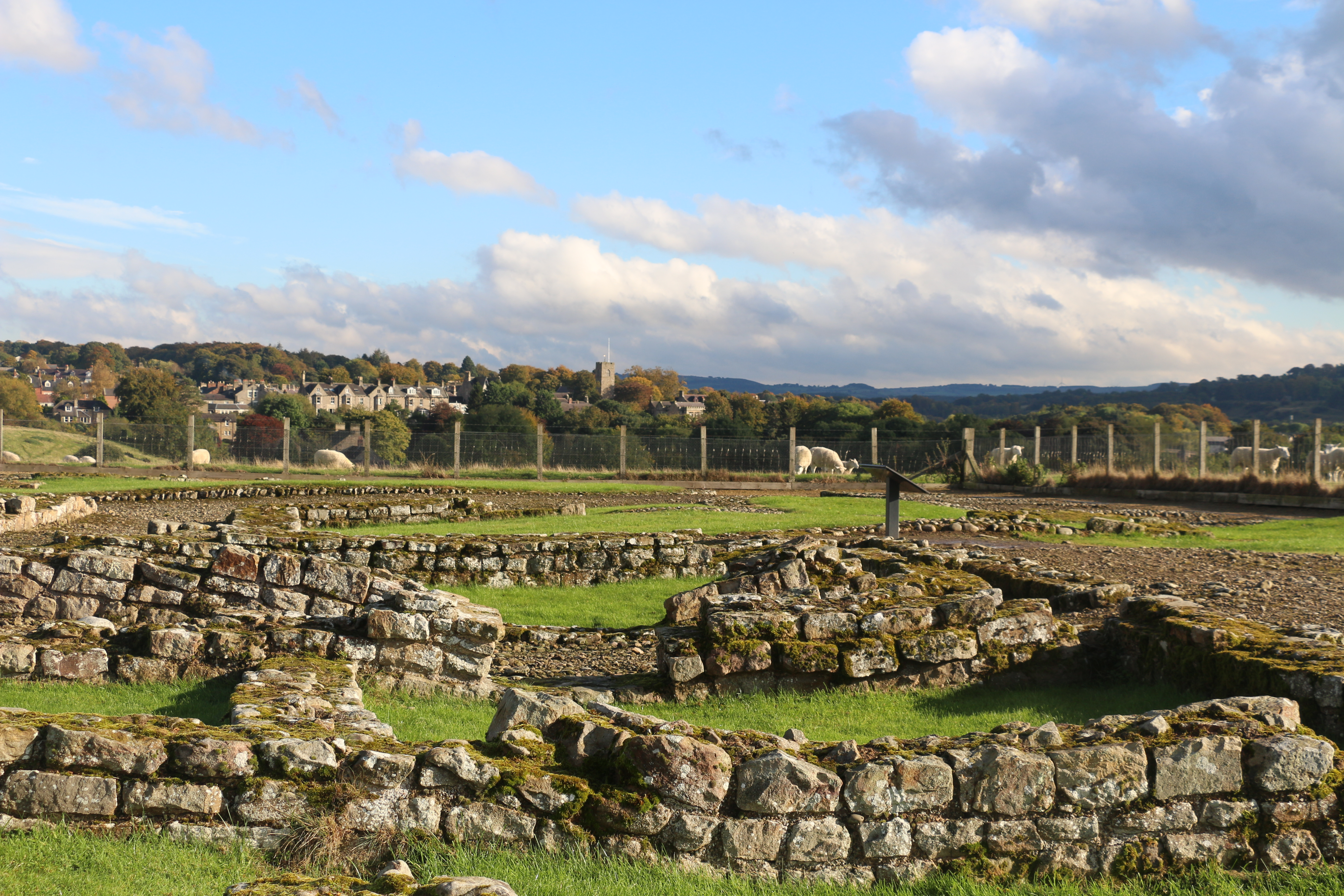 Corbridge Corstopitum Roman station Wikidata has entry Q17643864 with data related to this item.